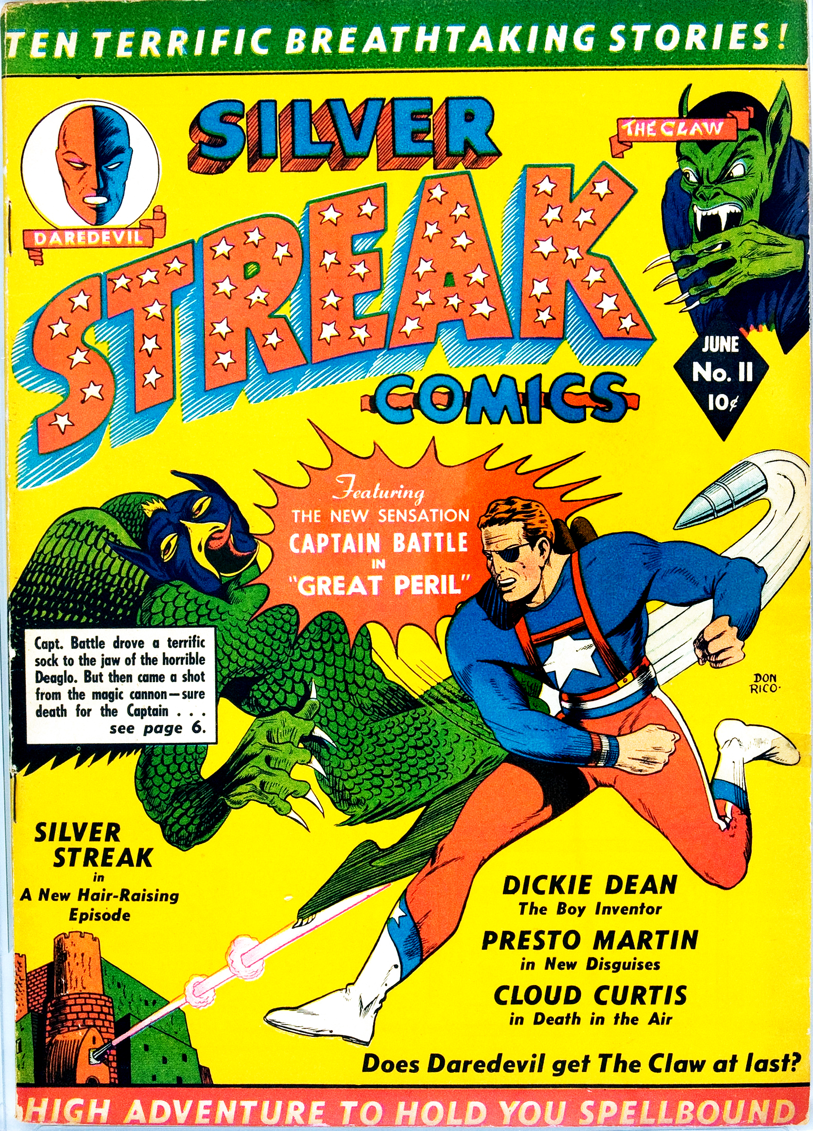 Cover of Silver Streak Comics #11 (May, 1941) art by Don Rico